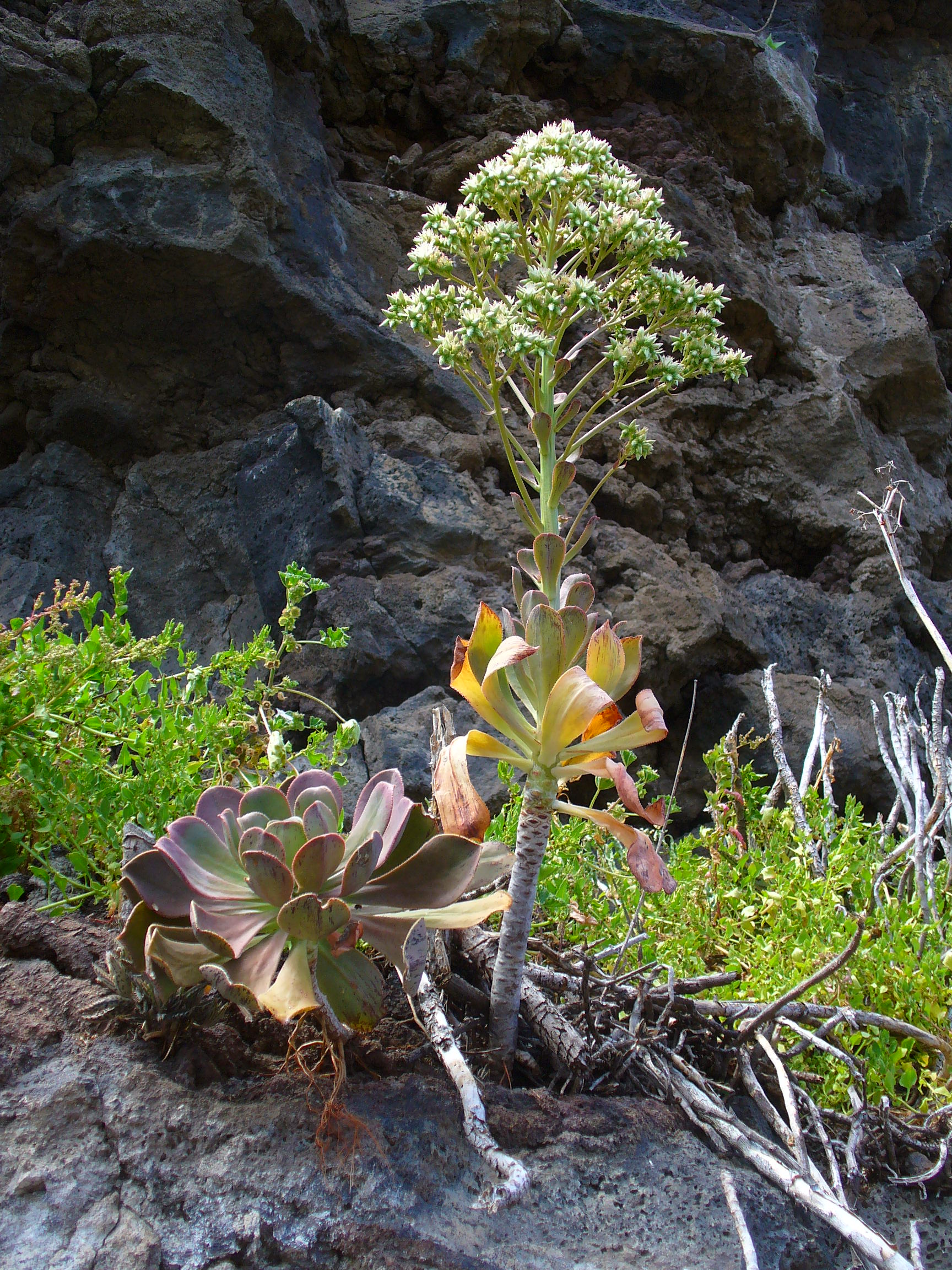 Bramwell’s Giant Houseleek, habitus; Los Cancajos, La Palma, Spain.